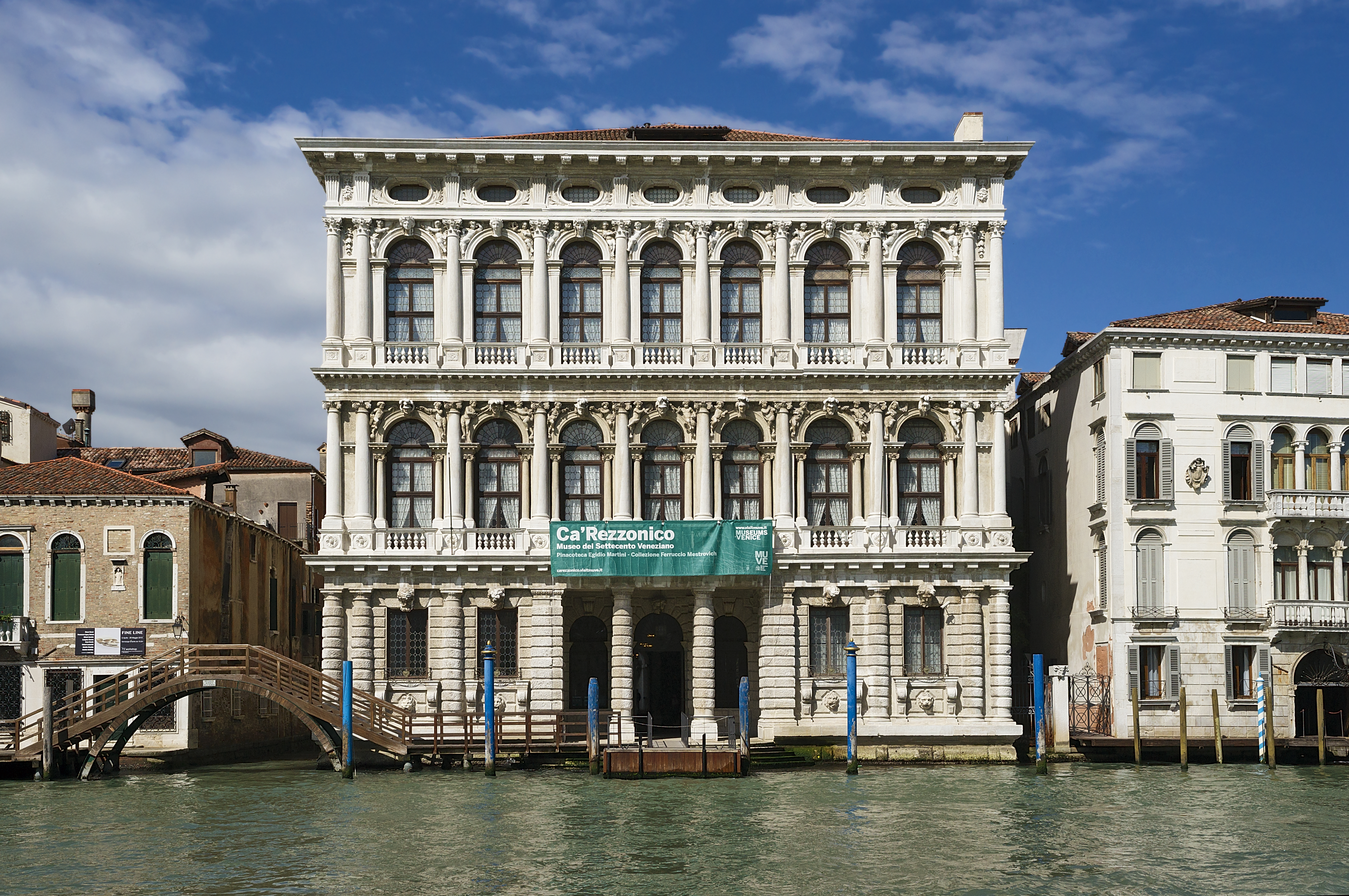 Ca'Rezzonico, Venice facade of Giorgio Massari